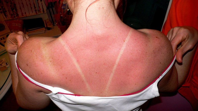 This is why I refer to myself as "an indoor model." I break in the great outdoors. (This is after a couple of hours of lawn work.)